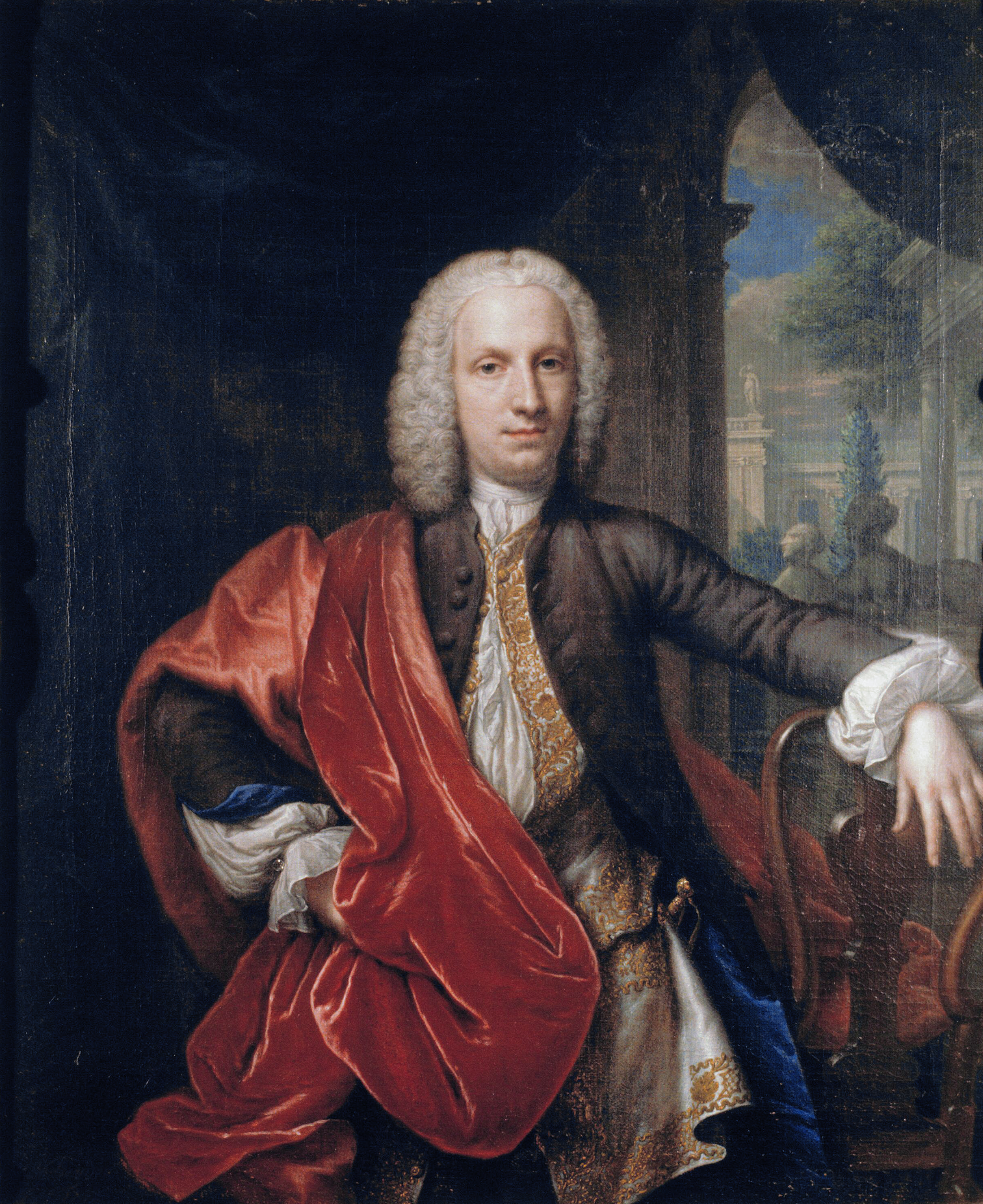 Franco Pauw (1714-1776) oil on canvas 55 x 46 cm signed b.l. 1743